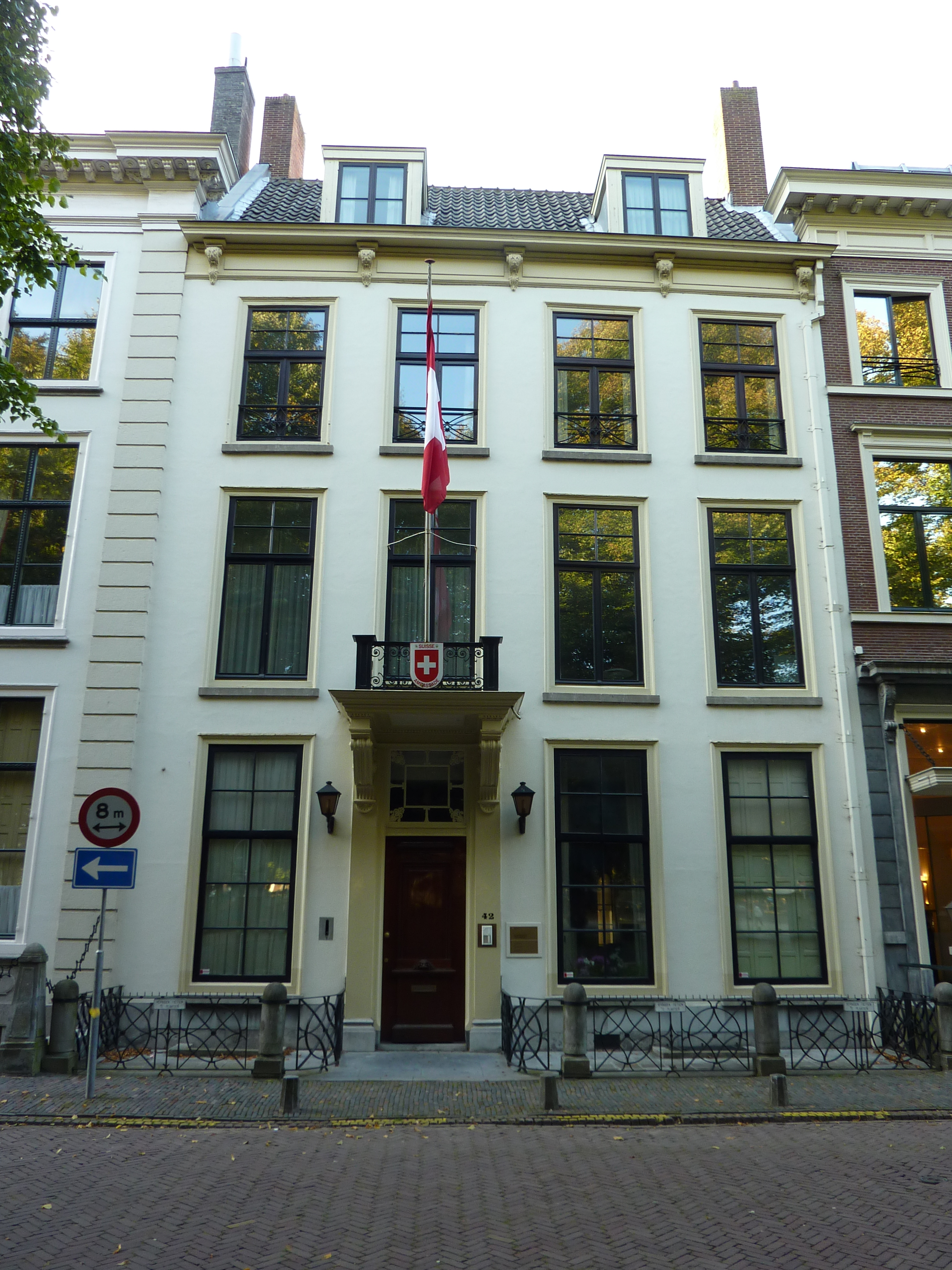 Embassy of Switzerland in Netherlands